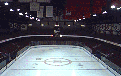 Matthews Arena, Boston, Massachusetts